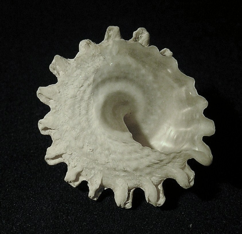 Lithopoma tectum (Lightfoot, 1786); family Turbinidae; Grenada